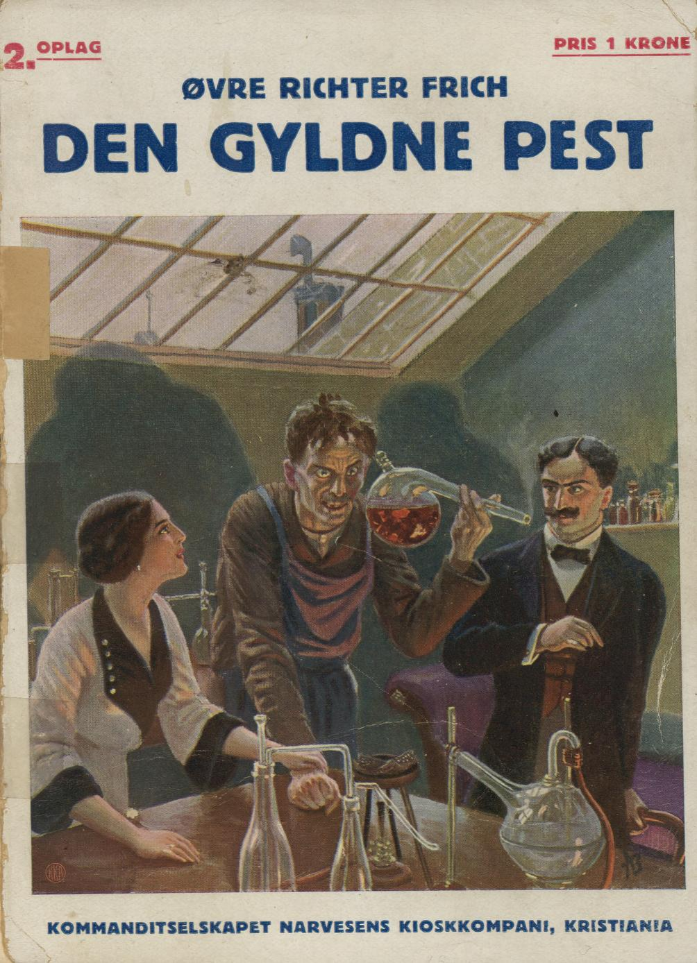 Title: Den gyldne pest : en moderne alkemistroman Author: Frich, Øvre Richter Kristiania : Narvesen, 1914 Cover design: Andreas Bloch